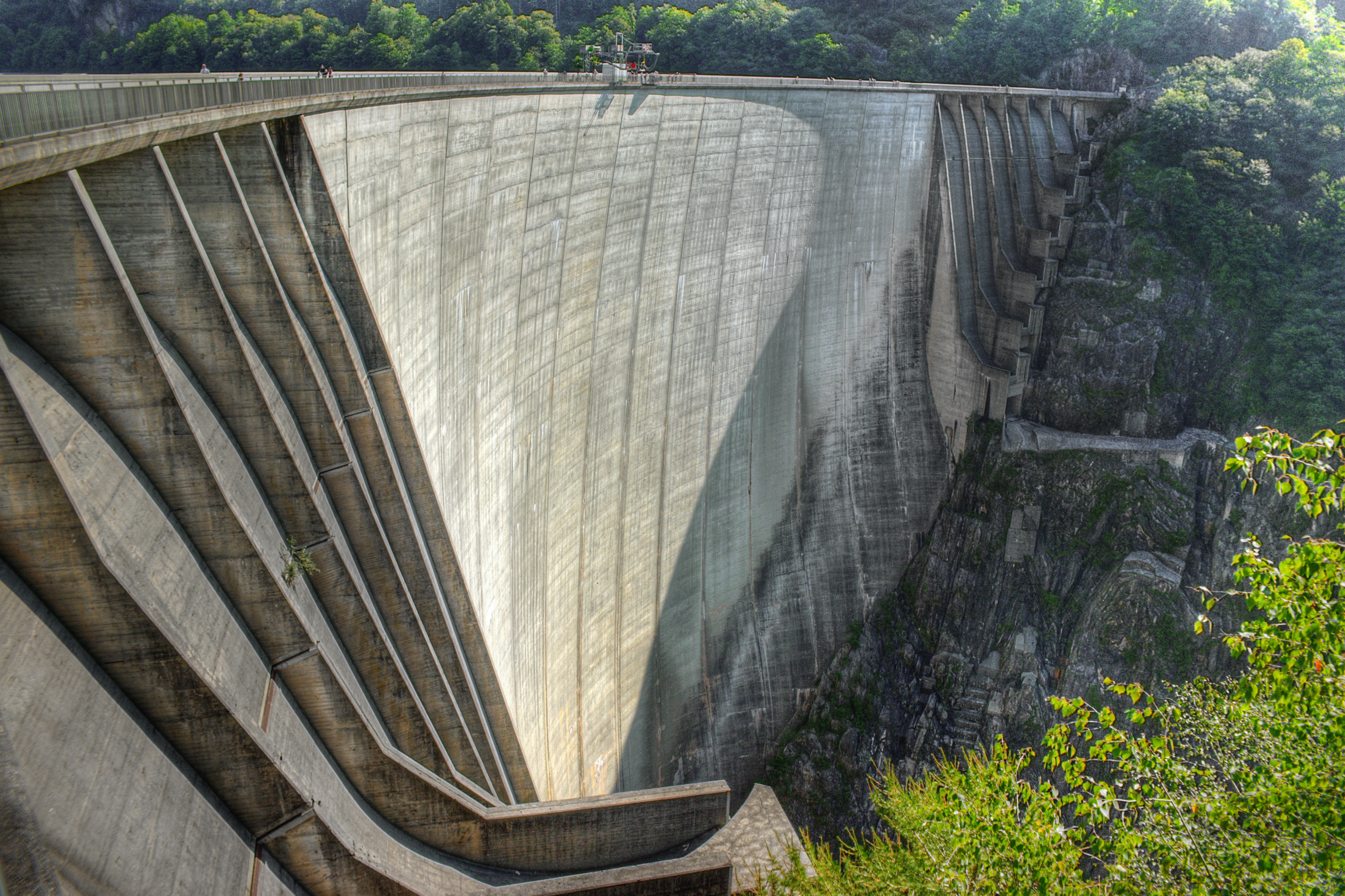 Embankment dam in Valle Verzasca, Switzerland, Canton Ticino